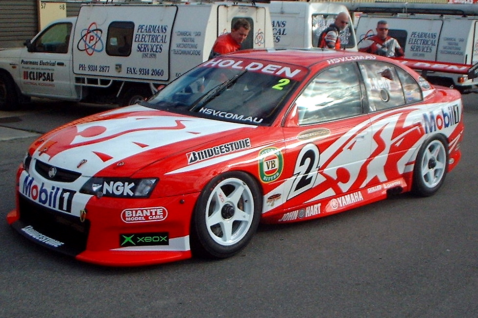 Todd Kelly's Holden Commodore VY at Barbagello, 2003. I (User:Birky21) took this picture myself at Barbagello Raceway, Perth in May 2003.